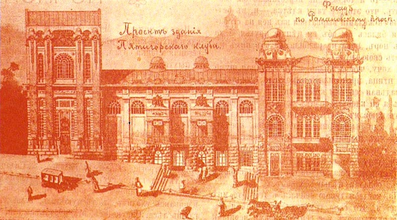 Project of the main facade of Vsesoslovniy Club in Pyatigosk.